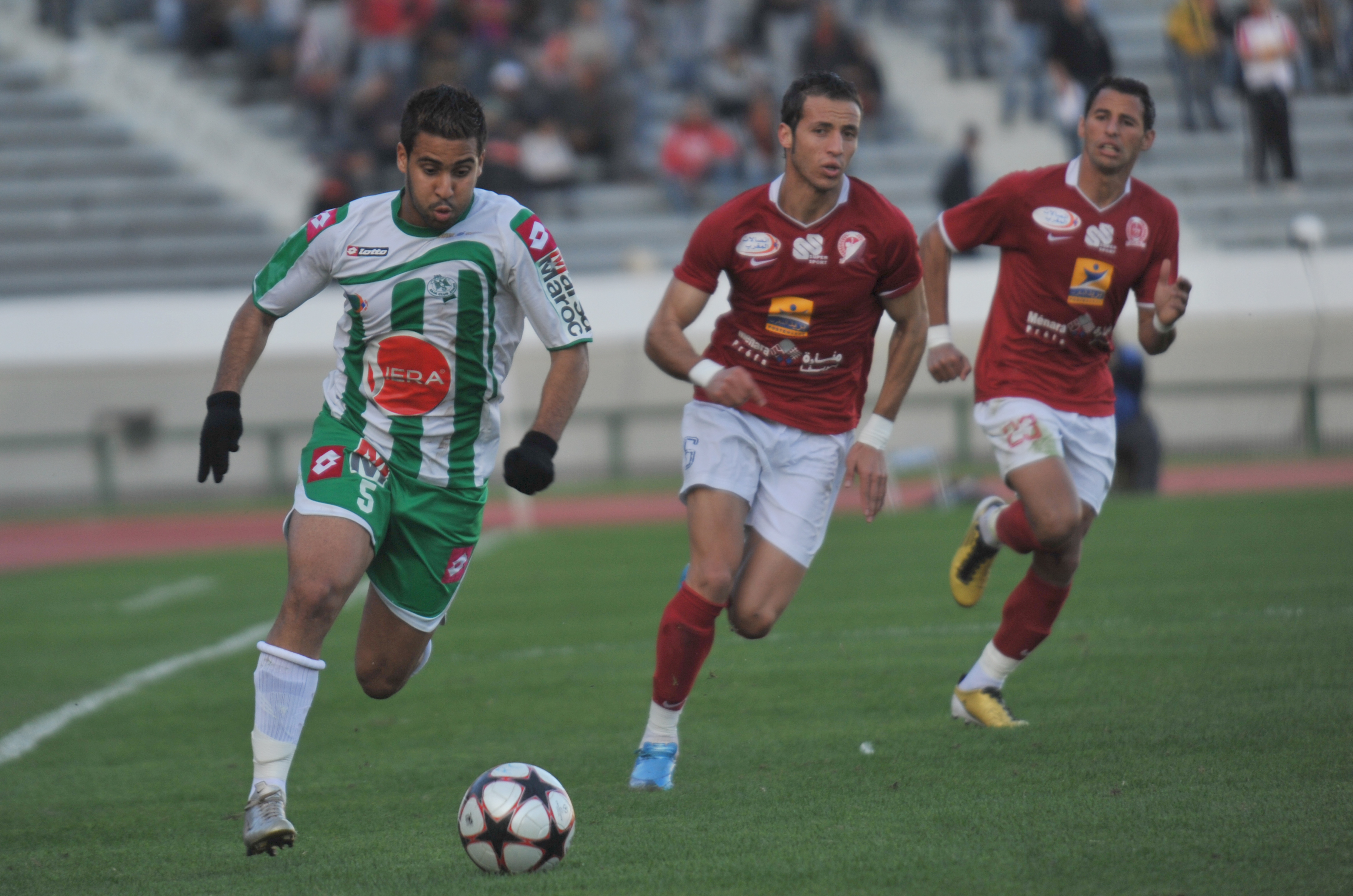 Mohsine Moutouali, player of Raja Casablanca (in green)